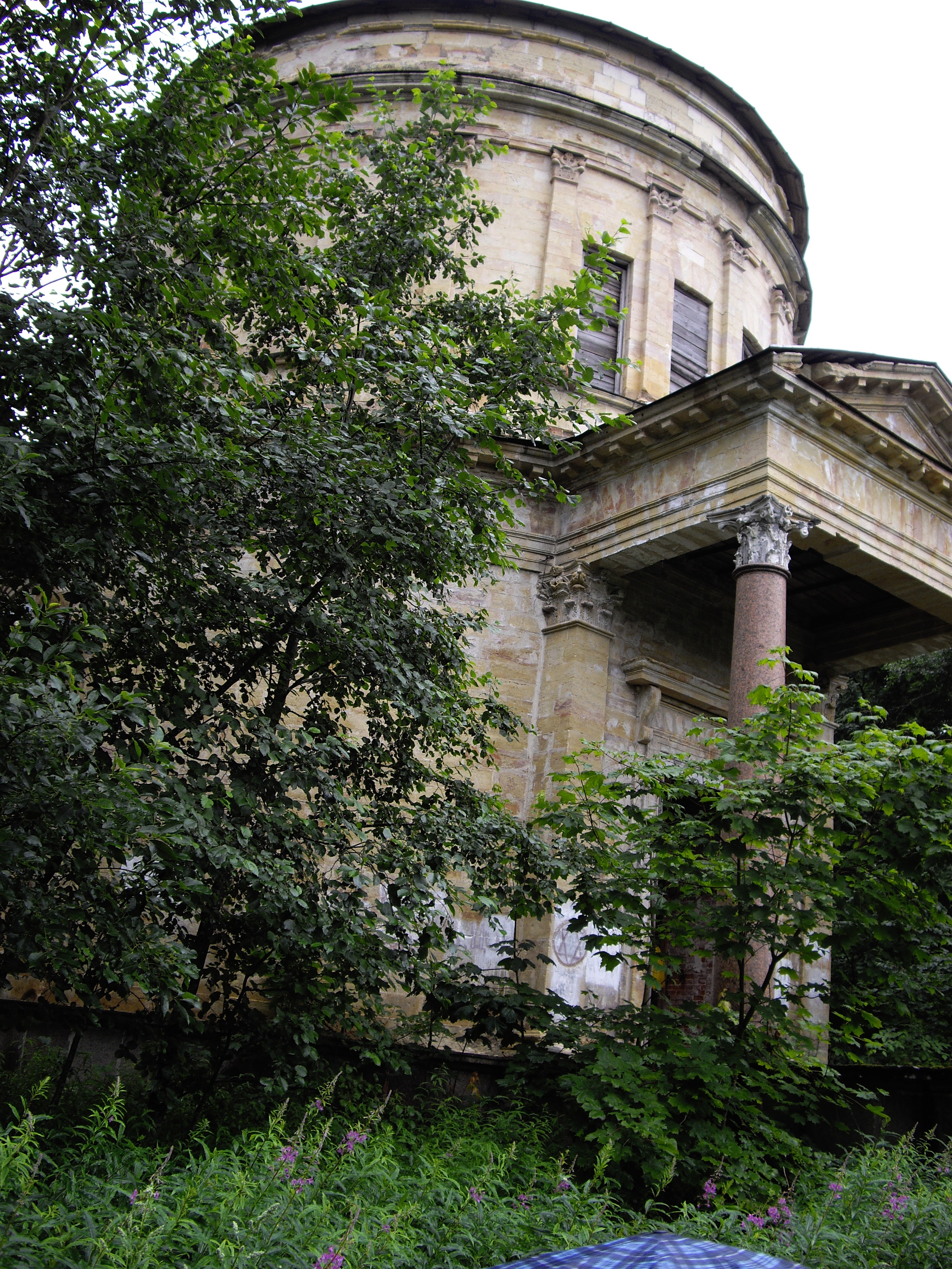 St Stephanie Church in Druzhnoselye, Gatchina district of Leningrad region, Russia. Architect Alexander Brullov, 1834